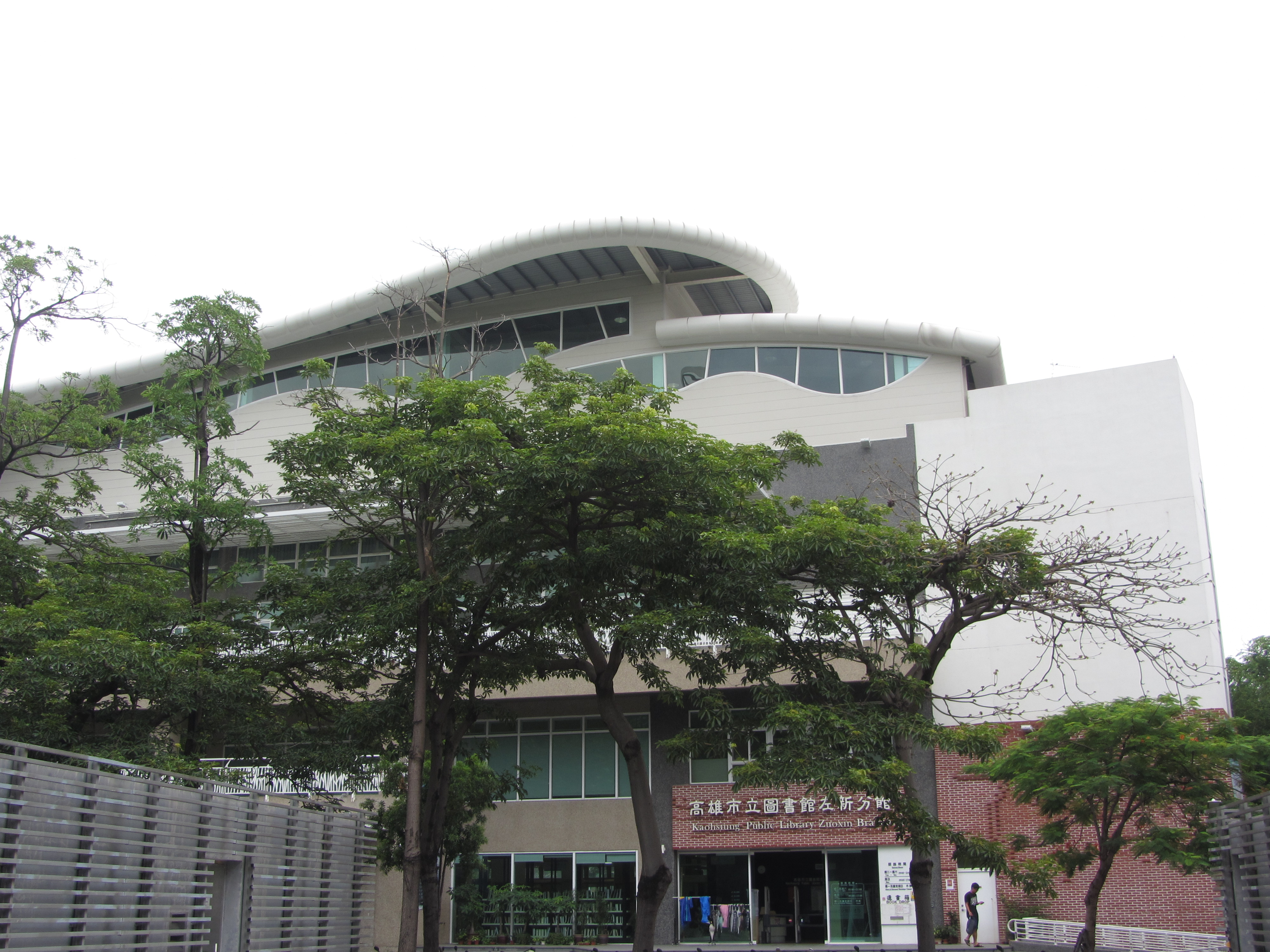 Kaohsiung Public Library Zuoxin Branch, Zuoying District, Kaohsiung City, Taiwan